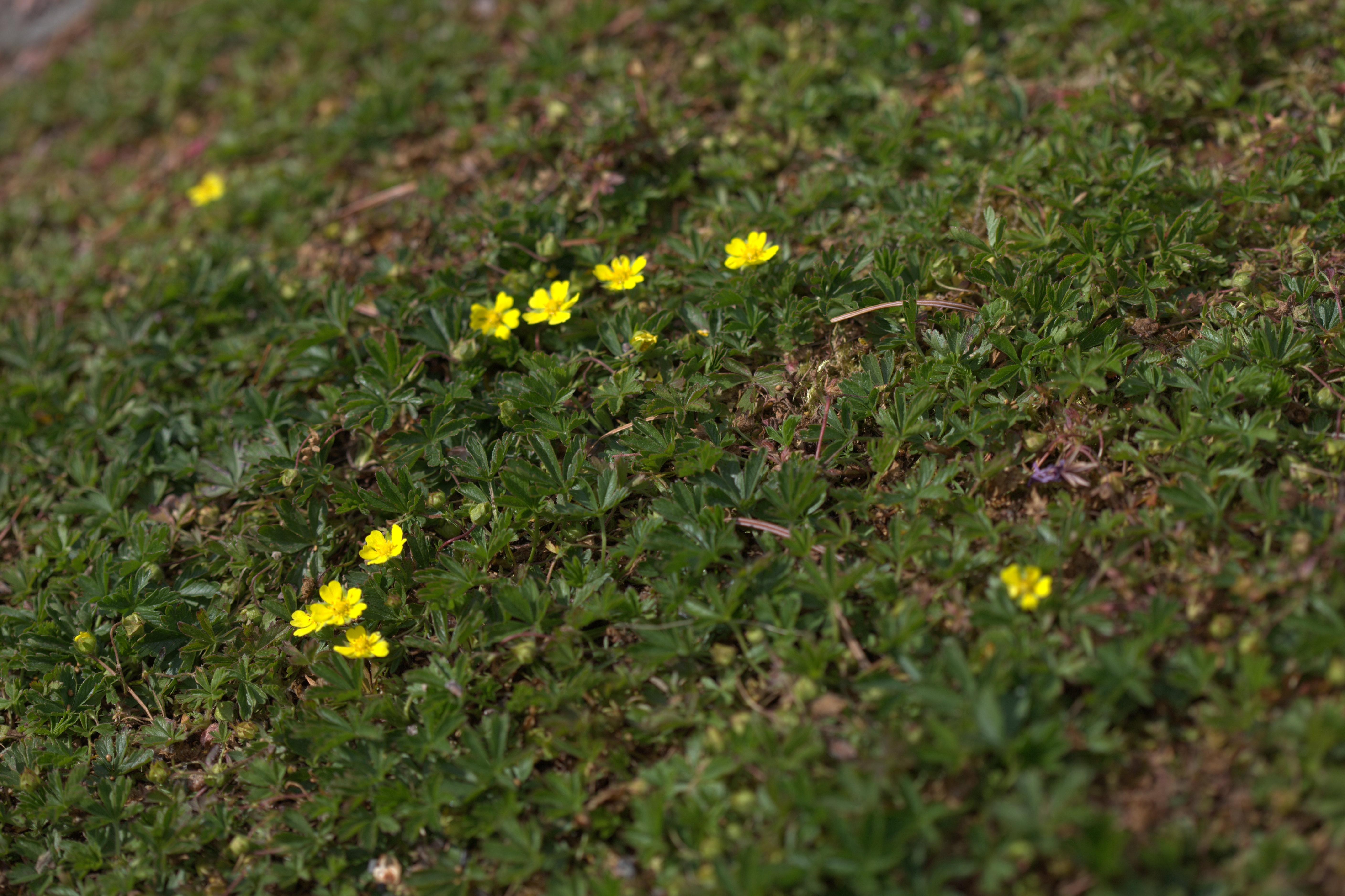 Photo taken at Gothenburg botanical garden. Specimen id: 1990-2251 p G Plant collected in 1990 from a garden (Landsberg).